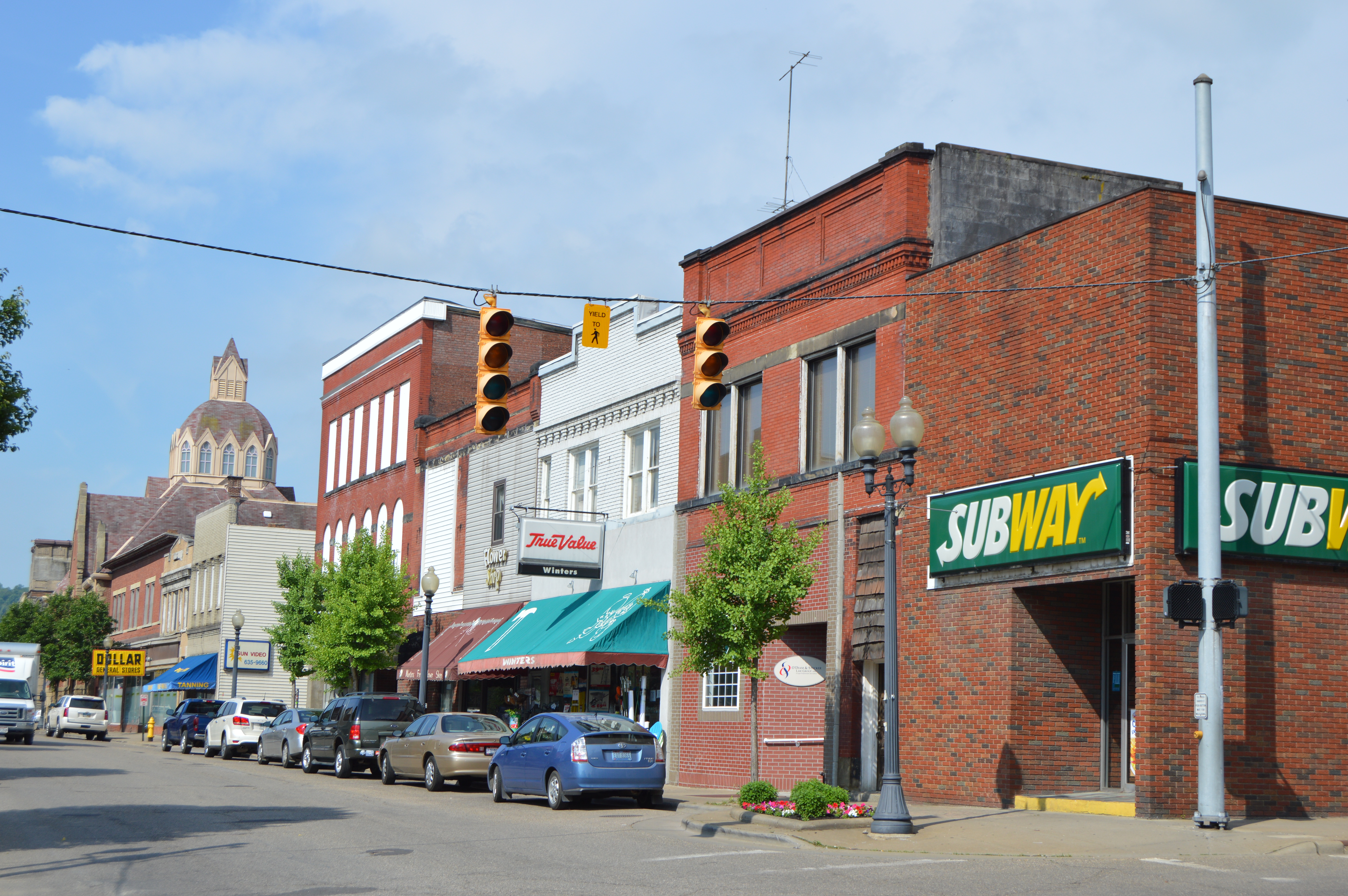 Looking southwest along Fourth Street from the Hanover Street intersection in Martins Ferry, Ohio, United States.